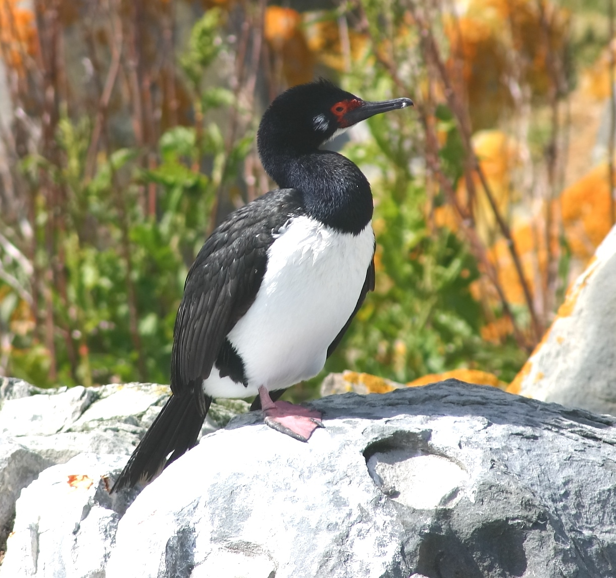 Magellan Cormorant at Beagle Channel - Argentina